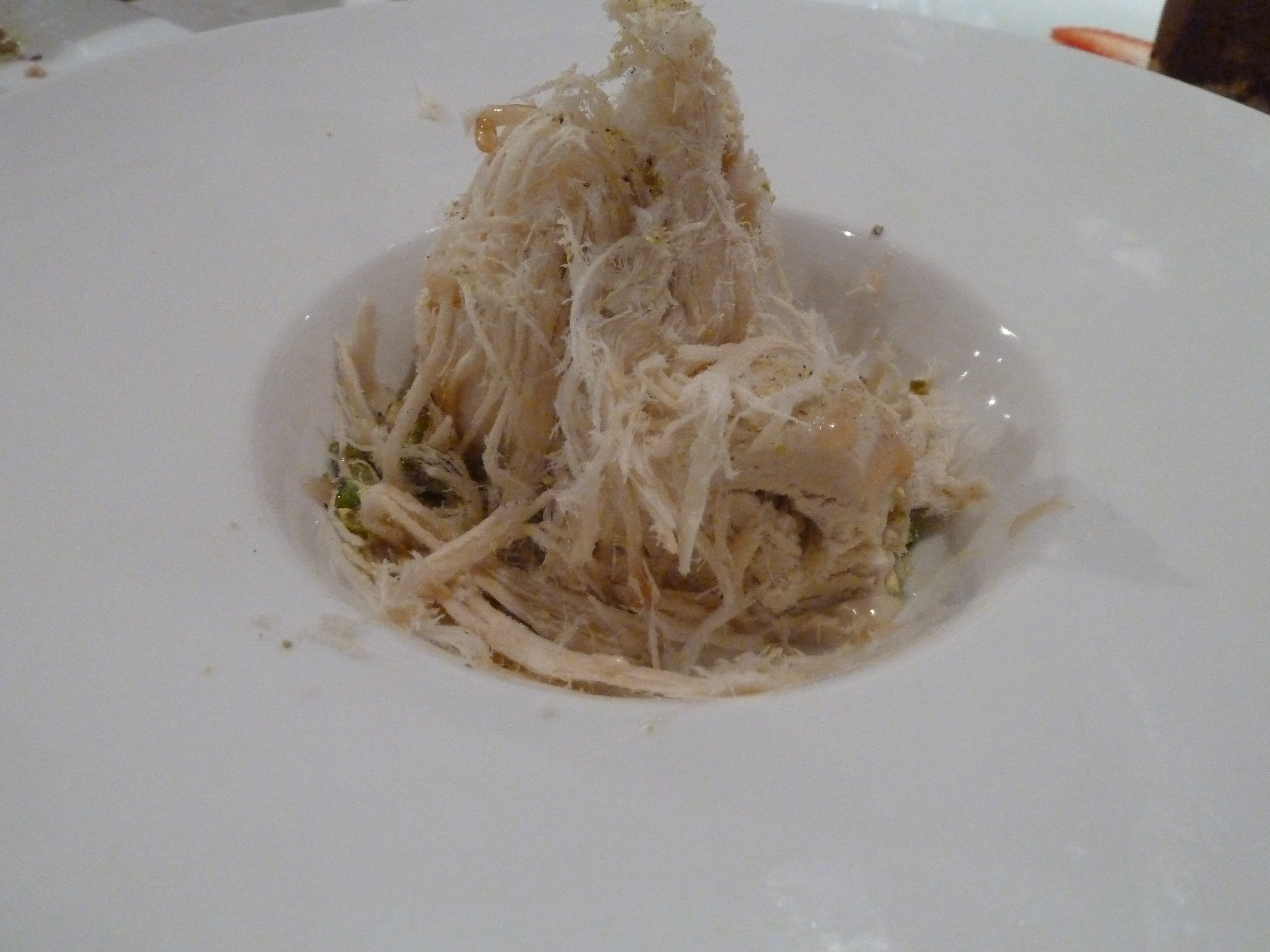 Deserts, Jerusalem